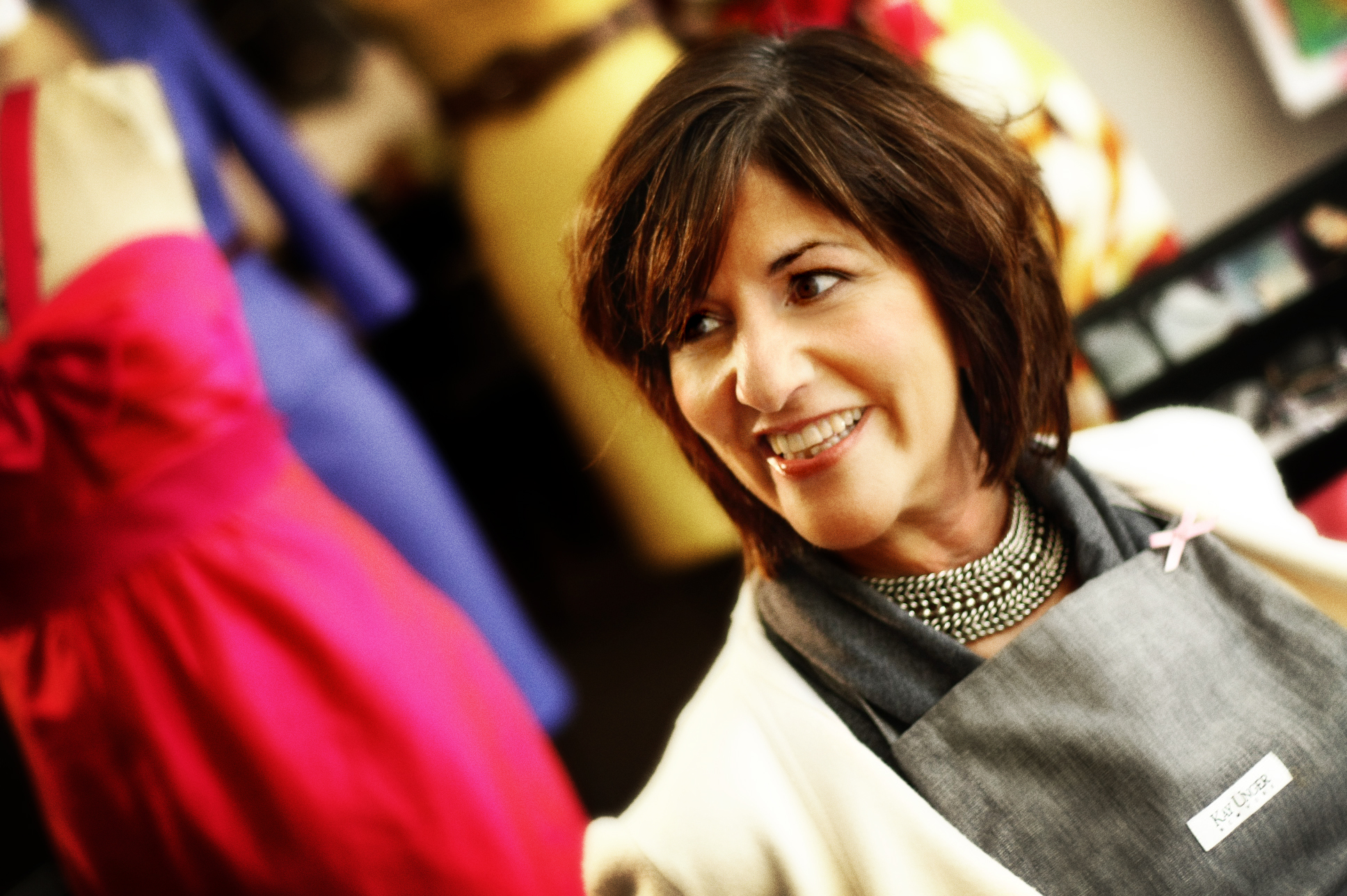 close-up shot of Kay Unger in her design studio.